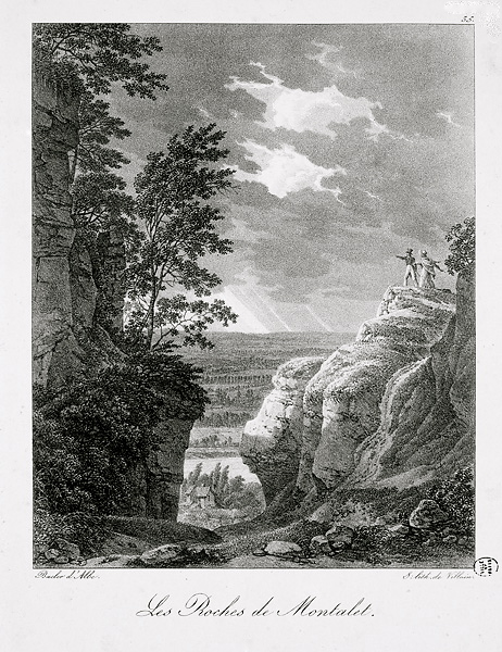 View of the Montalet rocks (or Montalets or Montalais )